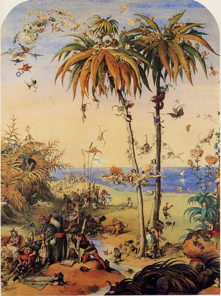 The Enchanted Fairy Tree